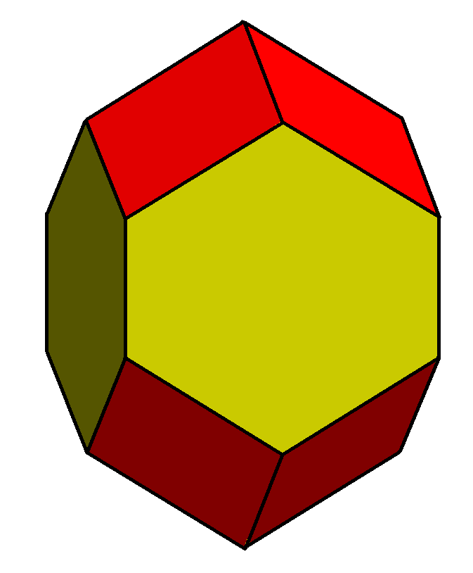 image of Rhombo-hexagonal dodecahedron